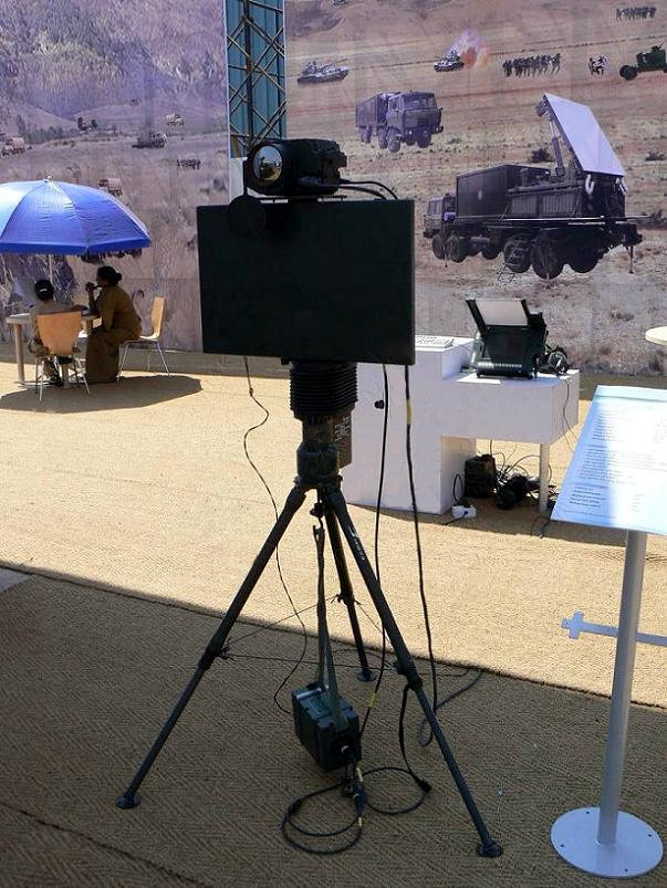 BEL Battlefield Surveillance Radar-Short Range (BFSR-SR) on display at Aero India-2007. the BFSR is a man-portable, battlefield and perimeter surveillance radar developed by LRDE, Bangalore and BEL for the Indian Army. Costing Rs 40 lakhs (USD 100,000) each, there are currently 1176 units being manufactured for use in border areas. Units have also been sold to foreign countries. This BFSR unit has an integrated Thermal imaging camera on top of the Radar Array. The power battery is suspended from the tripod for added stability. The Display unit is a 10" LCD display, working on Windows NT platform is seen in the background.